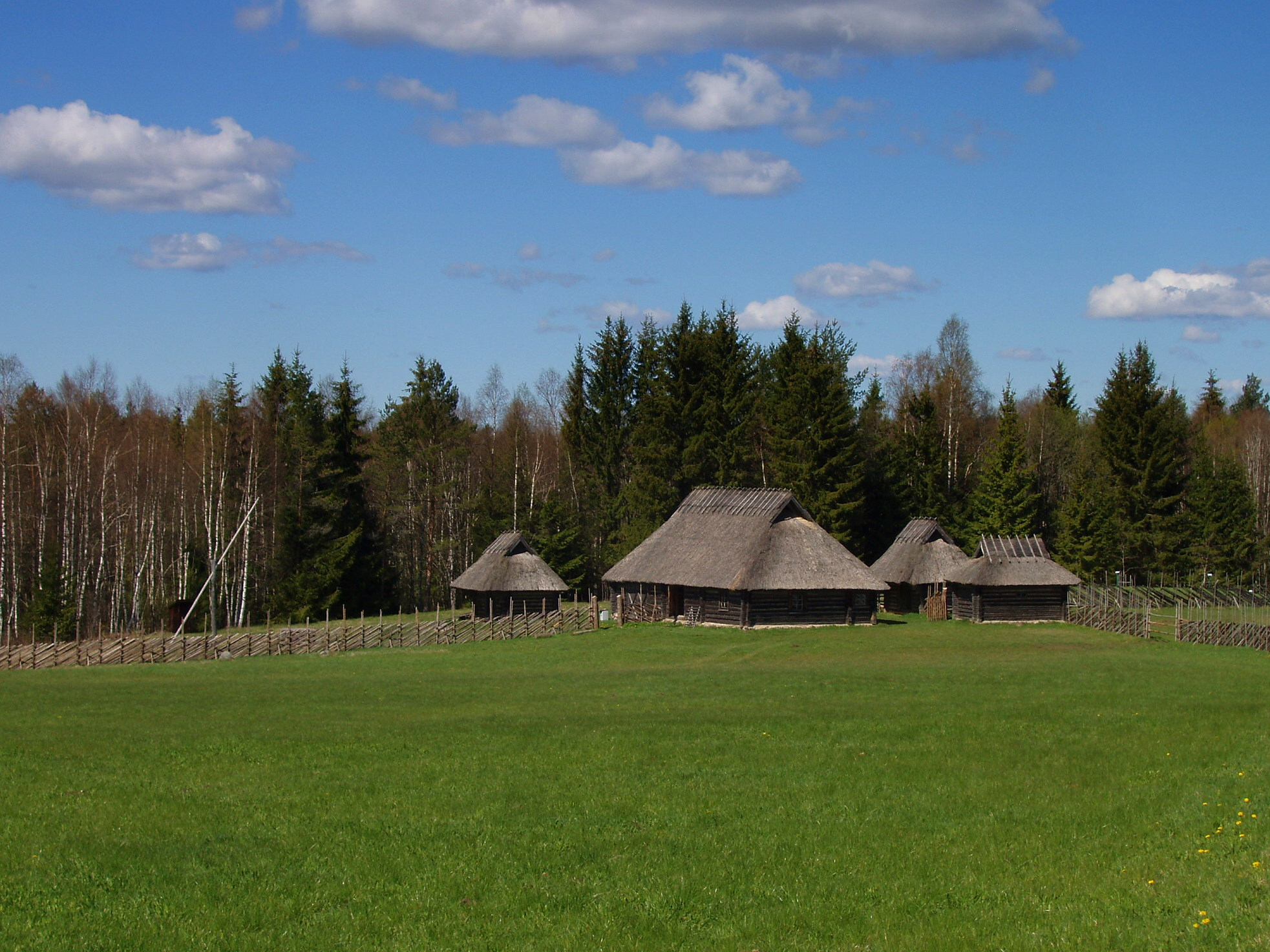 A. H. Tammsaare muuseum Vargamäel. Sauniku eluhooned. A. H. Tammsaare museum in Vargamäe. Houses of farmhand. Good example of traditional houses in Estonia before 20th century.